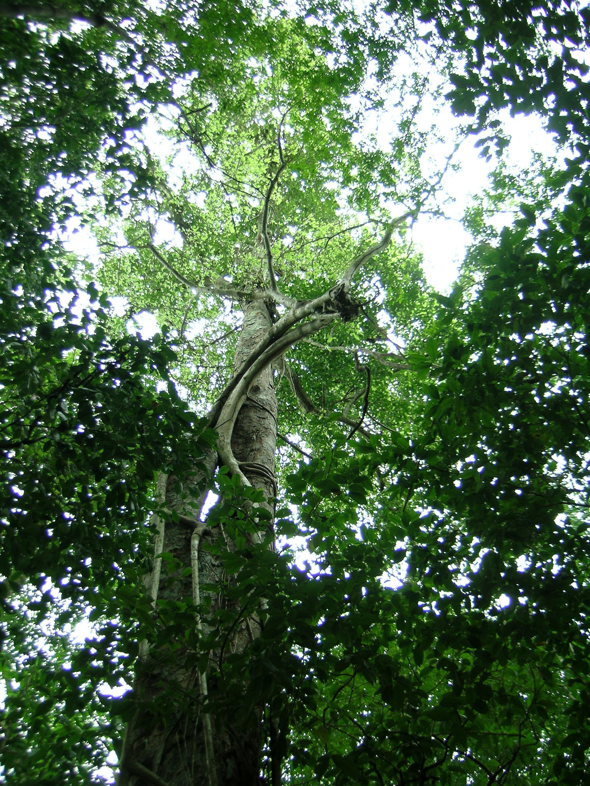 Looking up a mature Brosimum alicastrum tree at the archeological site El Pilar (Belize side).